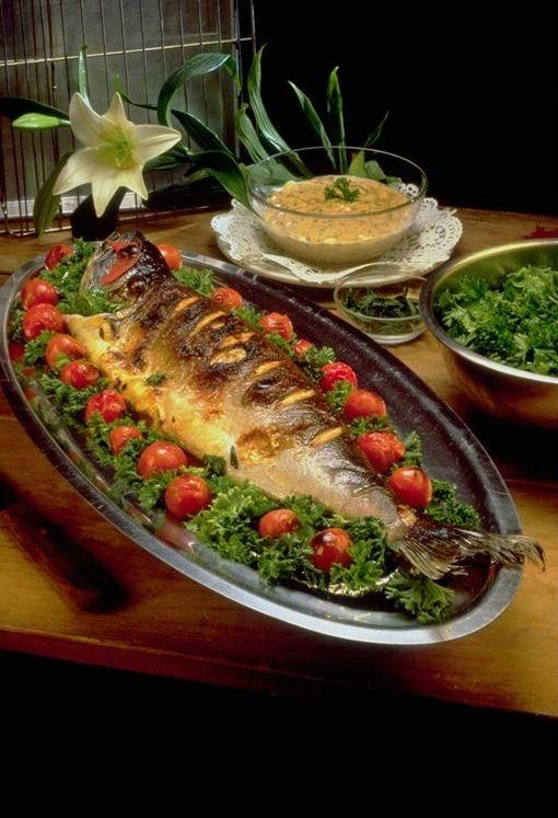 iraqi food